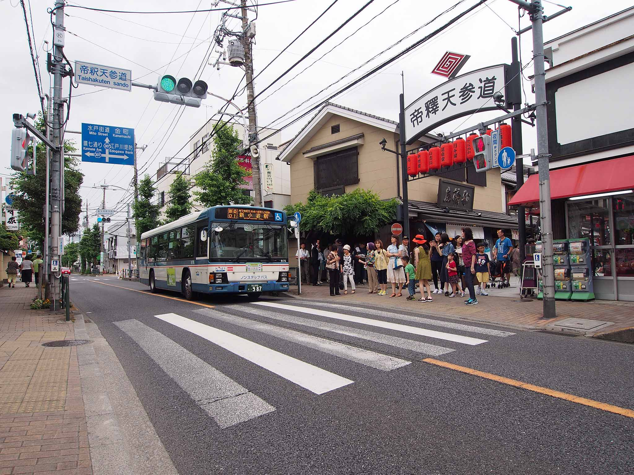 Shinkin Line at Shibamata, operated between Shin-koiwa and Kanamachi, by Keisei Town Bus and Keisei Bus. Model: Isuzu Erga KL-LV280N1 License plate: TKA200KA-987 Place: Shibamata, Katsushika Ward, Tokyo Japan